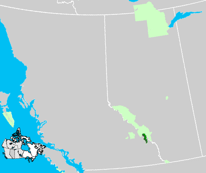 Location of Kootenay National Park